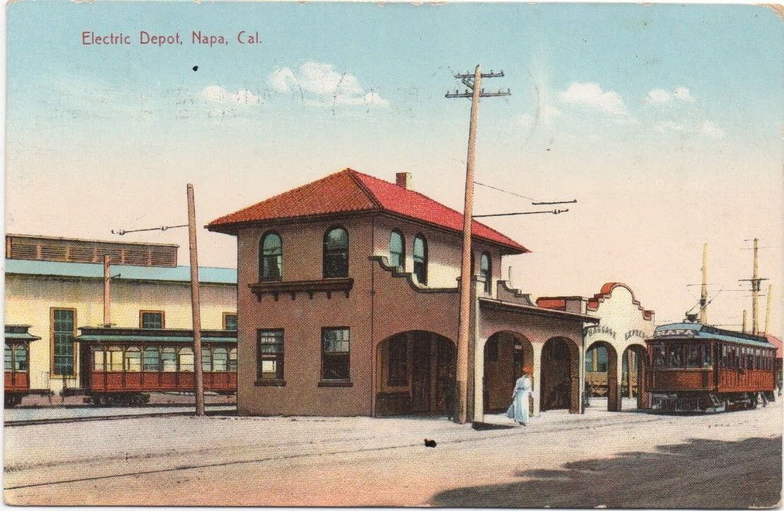 Early divided back postcard of the San Francisco, Napa & Calistoga Railway Company interurban station in Napa, postmarked 1917